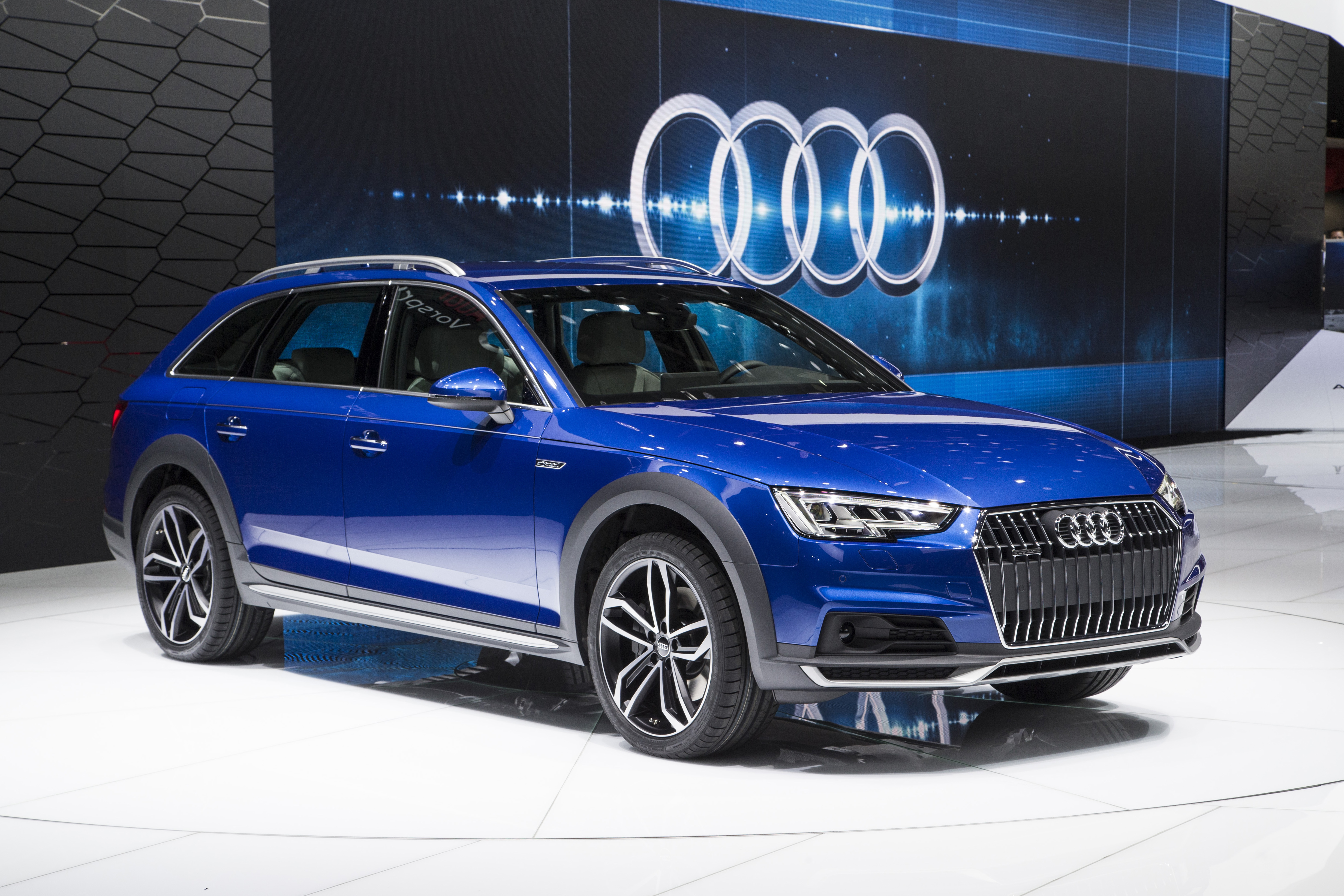 Der neue Audi A4 allroad quattro auf der North American International Auto Show in Detroit.